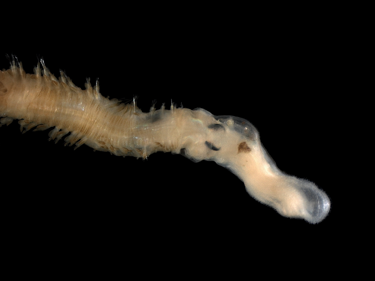 from the Belgian continental shelf.